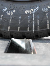 Tread depth measurement system